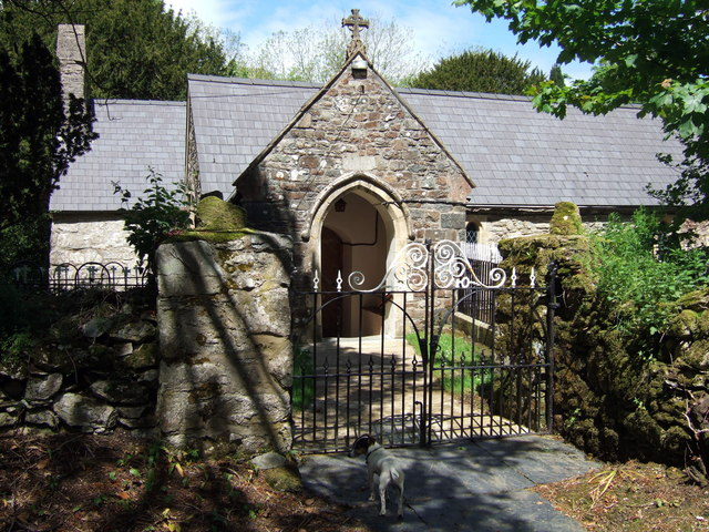 St Dogwells church gate and porch St Dogwells, which is hardly even a hamlet, more a scattering of houses and farms, is named after the C6 St Dogfael who founded this church and the abbey at St Dogmaels near Cardigan. The double-roofed church, tucked away down a yew-lined approach, is mediaeval, but rebuilt 1870s - locked, but key available nearby.It appears to lie right across the 'gridline' with the gate, dated 1870, in SM9627.